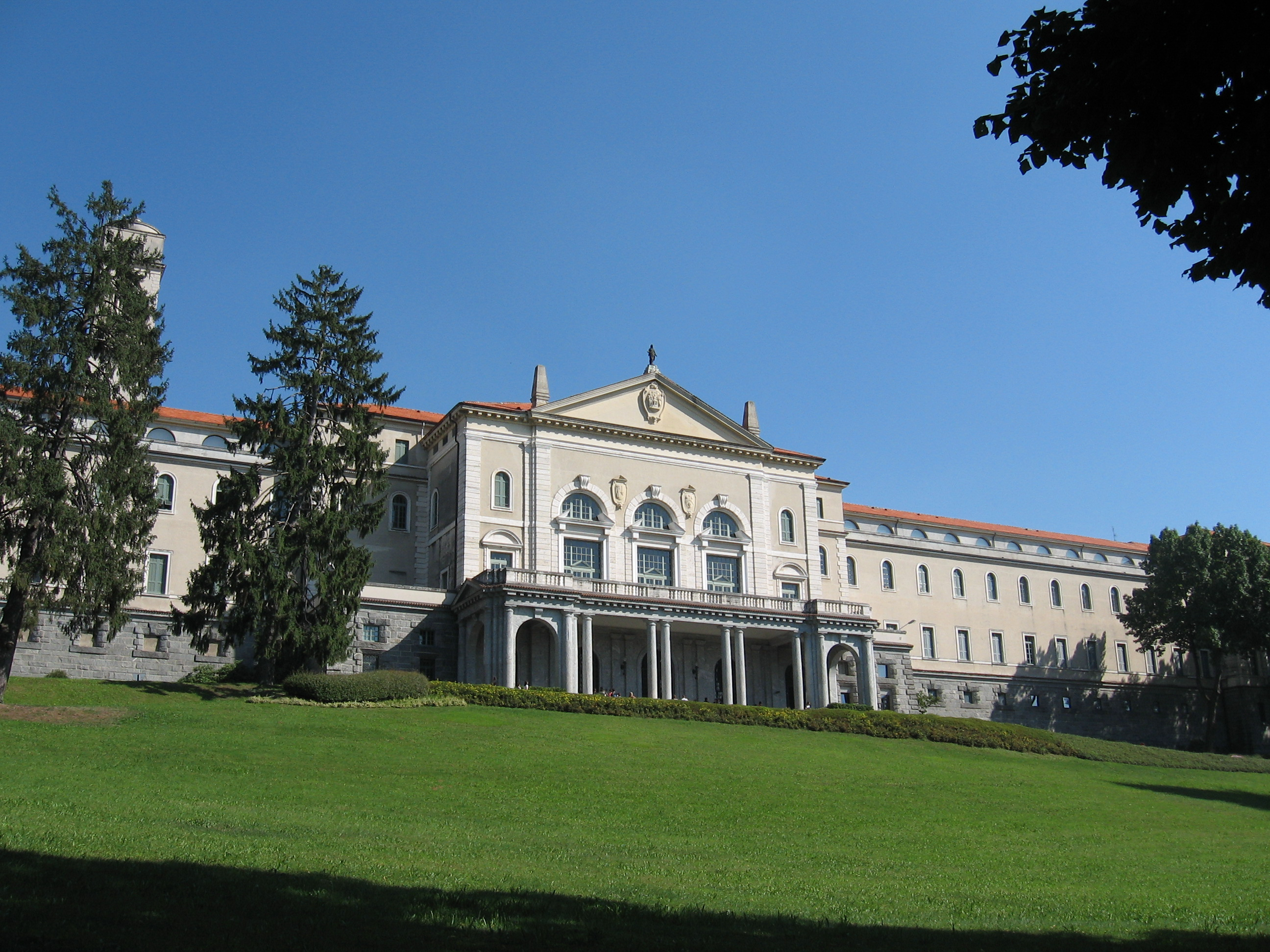 The Venegono Inferiore Seminary entance